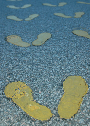 The first order a new recruit will receive is, 'get off of my bus right now.' The second order is, 'get on my yellow footprints right now.' Thousands of Marines have stood on these symbols of the future throughout Marine Corps history, and thousands more will continue that tradition during the late hours on their first night aboard the Depot. (original caption)